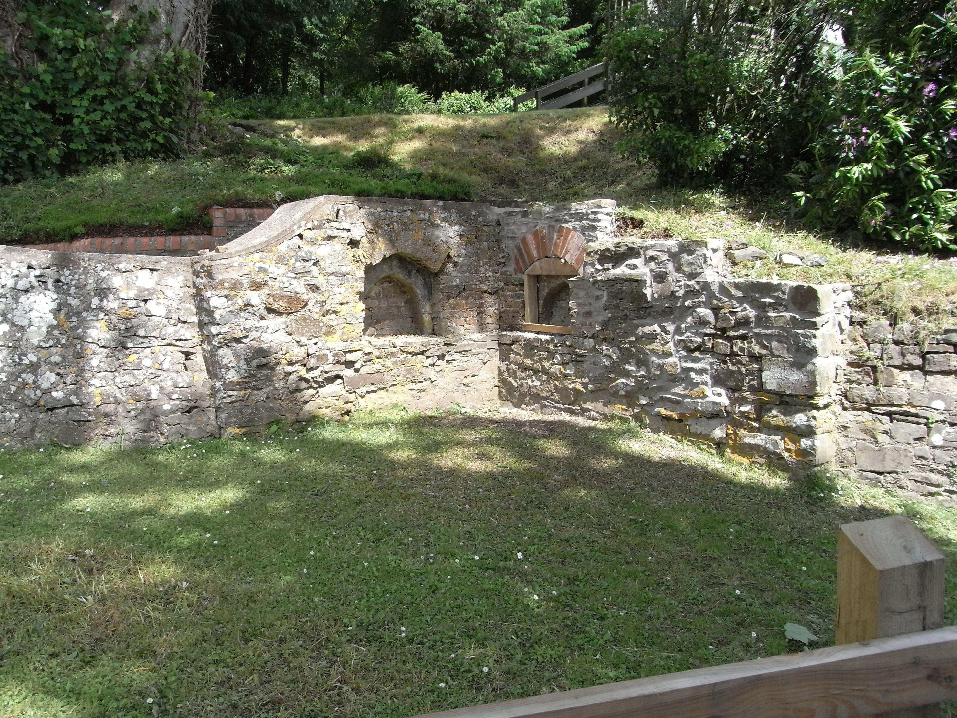 White Chapel Manor, Bishops Nympton, Devon, possible ancient remains of mediaeval chapel, otherwise identified as bee boles, north-west angle of manor house